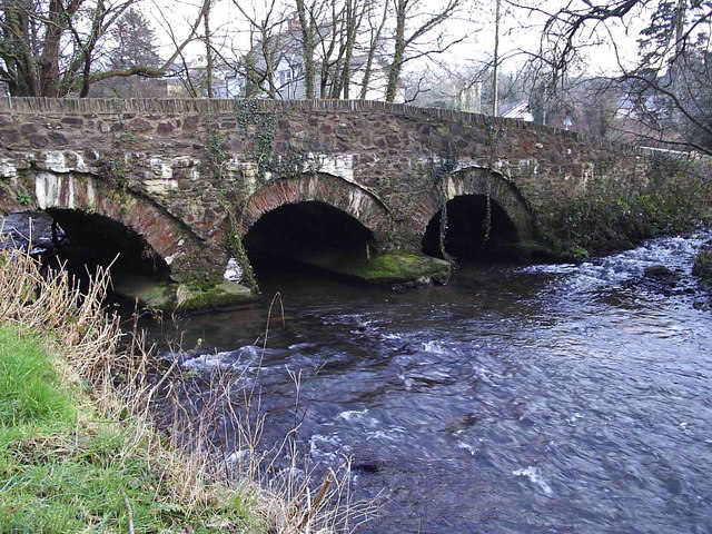 Llanychaer Bridge over the Afon/River Gwaun in Pembrokeshire, Wales. It was originally a narrow bridge only 10 feet (3 metres) wide. By the 1930s it had been widened to 18 feet (5.5 metres). White-throated dippers, Cinclus cinclus, sometimes nest under the arches.